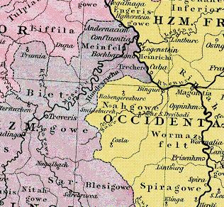 Hundesrucha (Hunsrück) in the Holy Roman Empire 1000 CE.